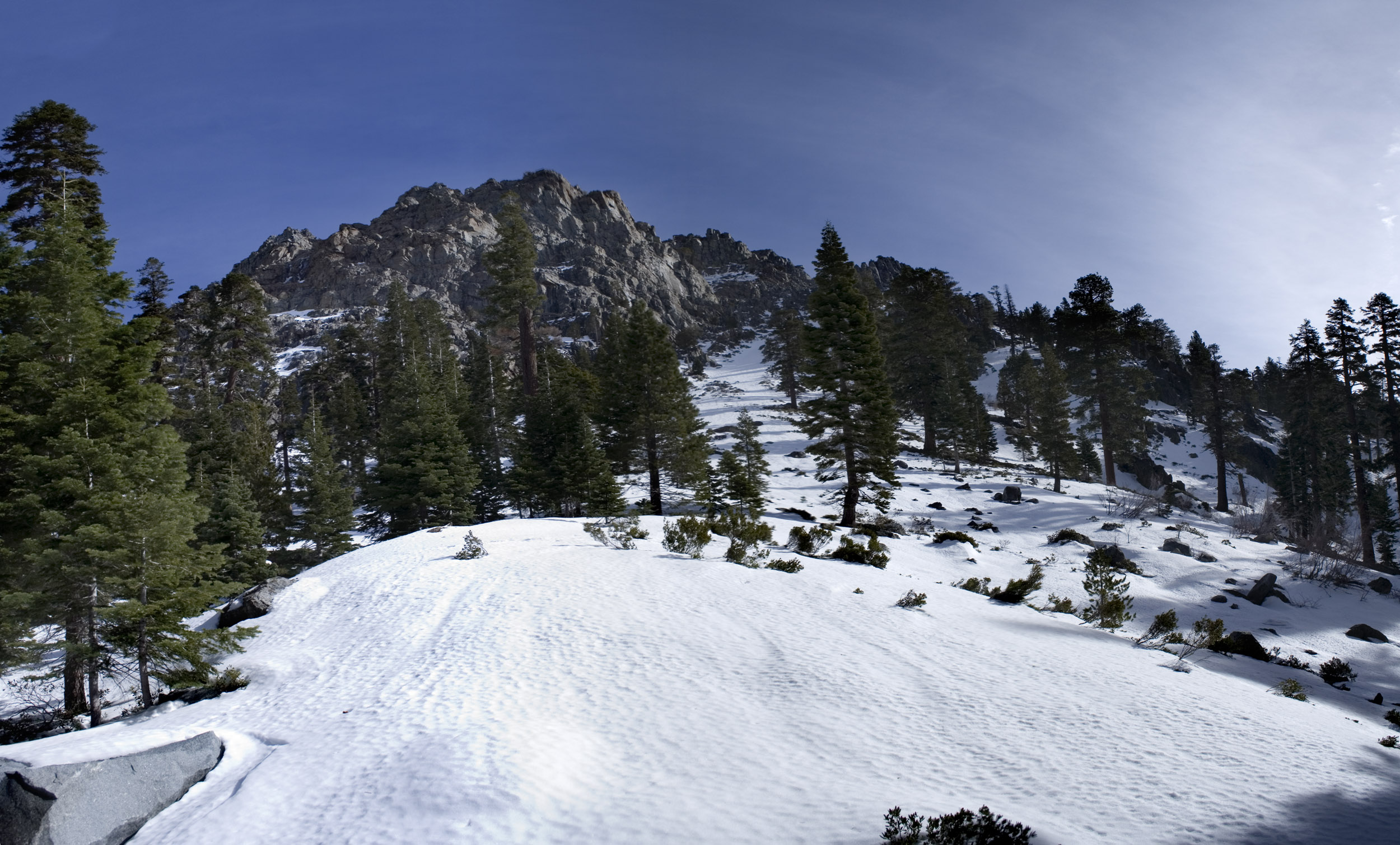 Taken from very near Eagle Lake on the south side of the mountain